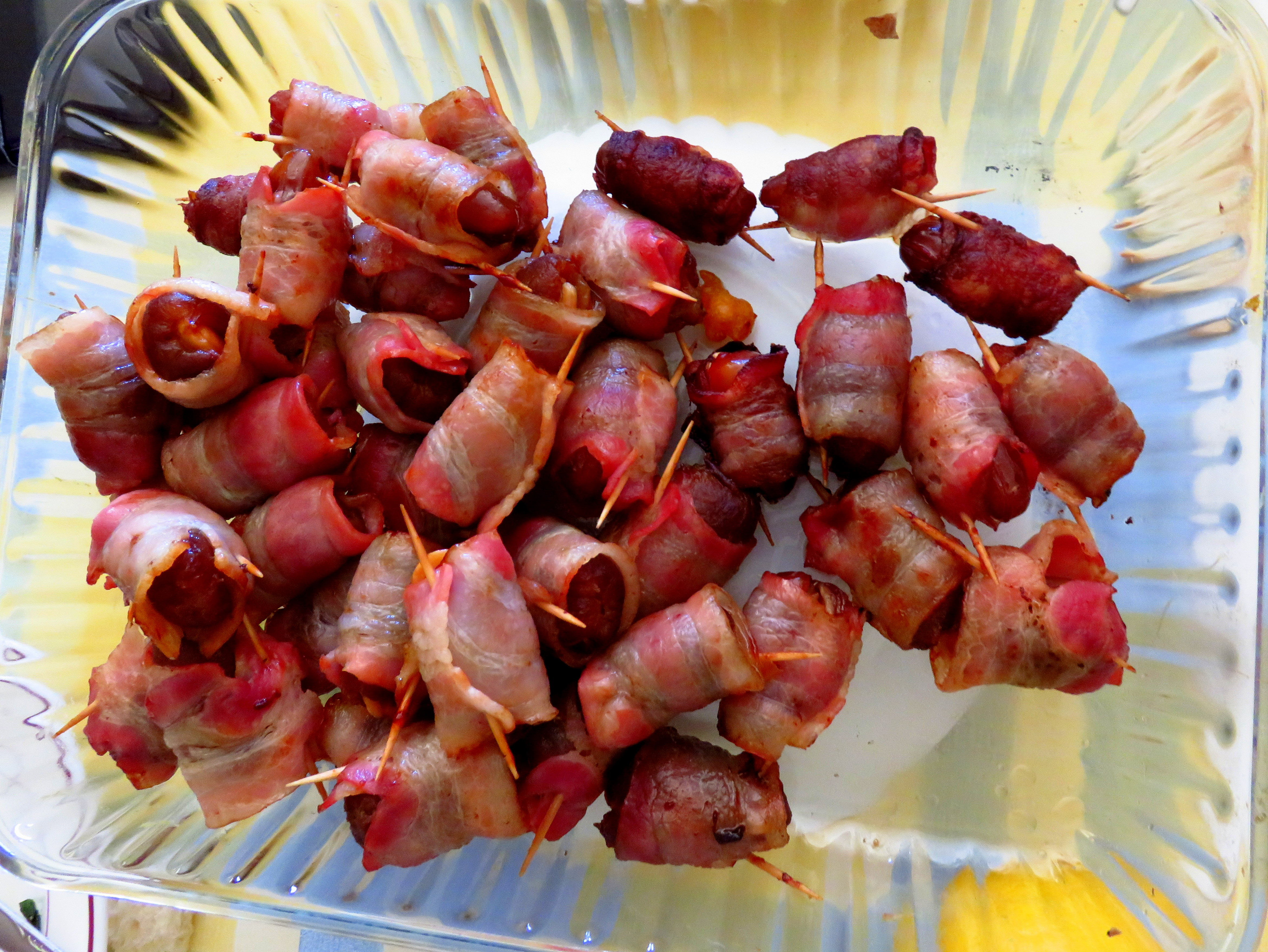 Dátiles con bacon